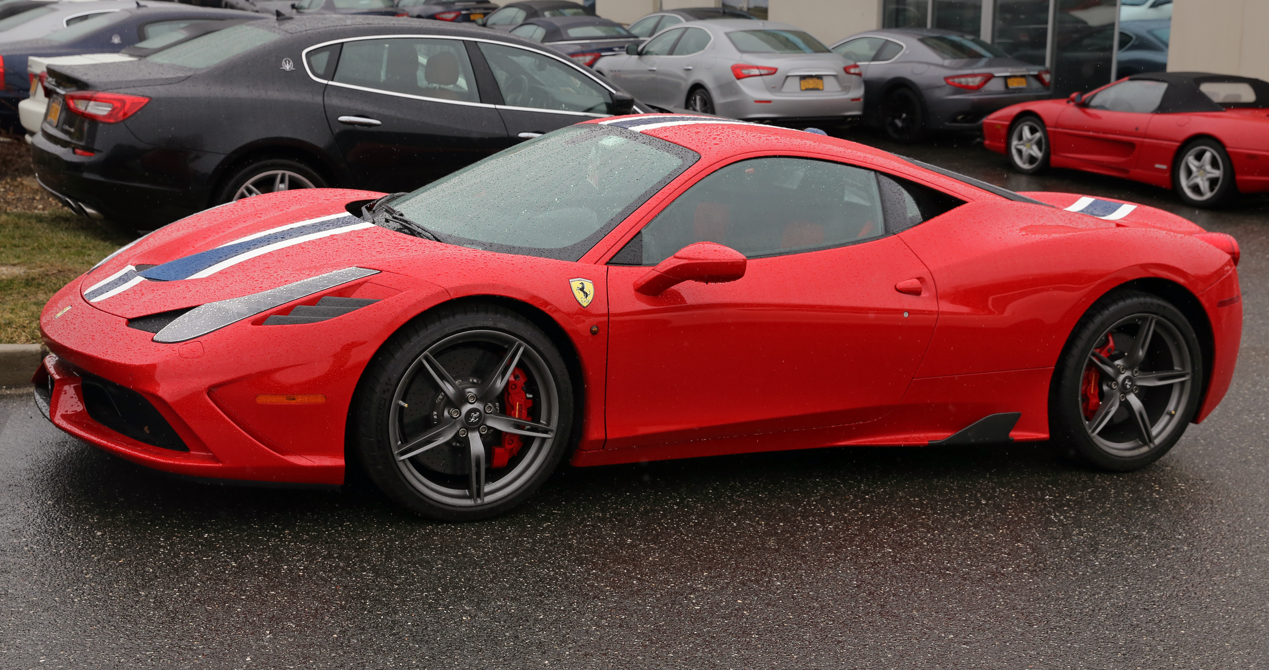 Front left side view of a 2015 Ferrari 458 Speciale. Lots of aerodynamic trickery on these cars, quite cool.